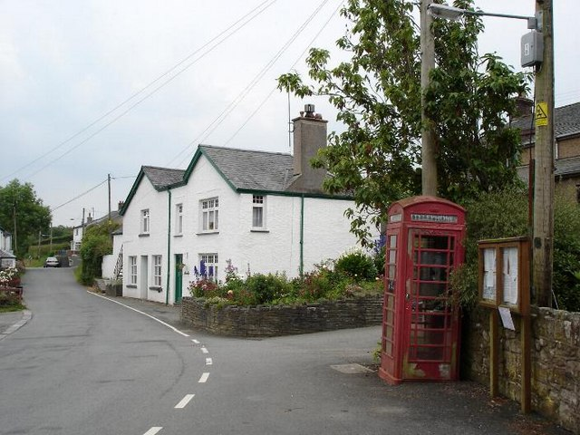 Pandy Tudur. Pandy Tudur village centre